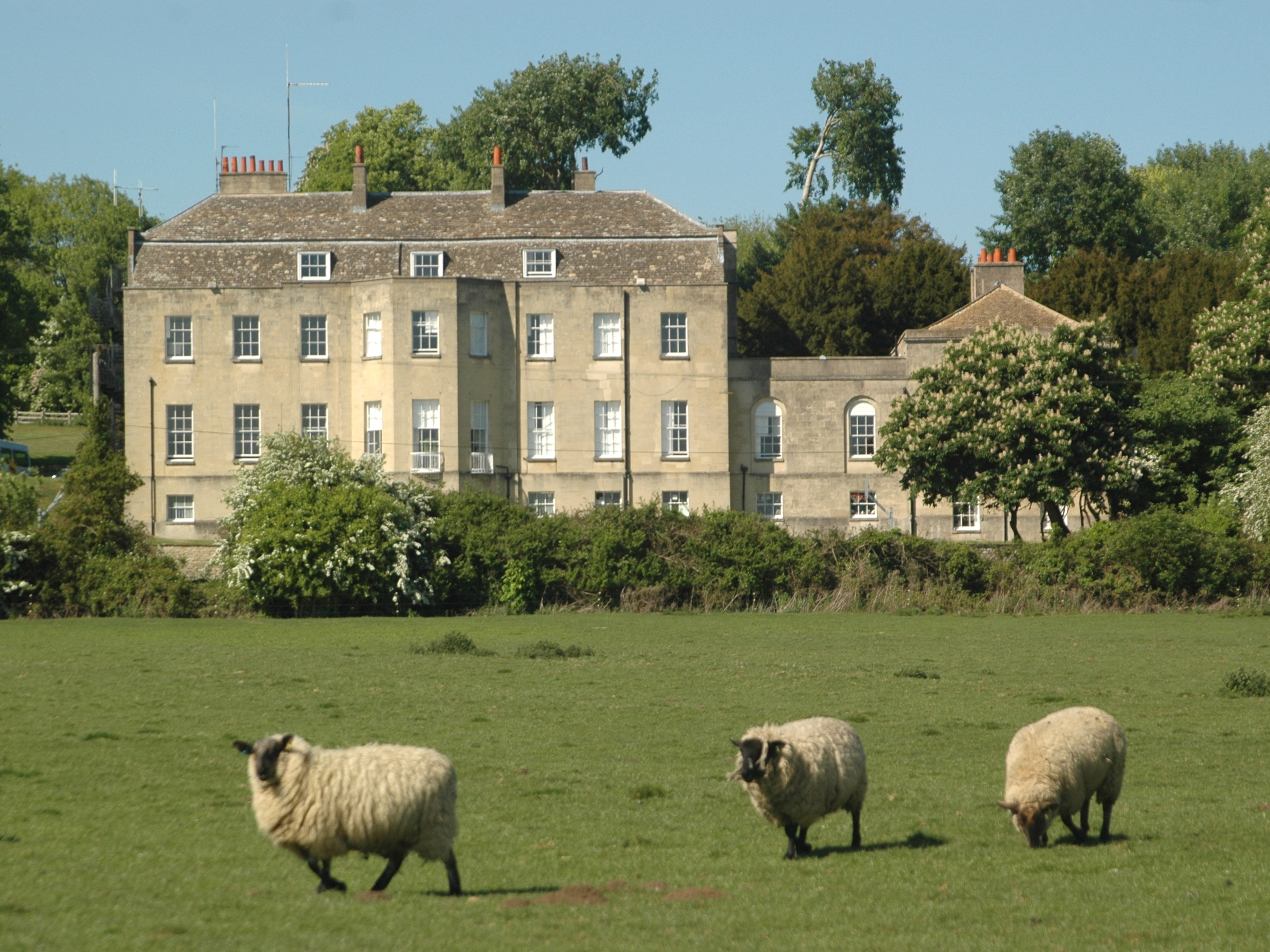 Woodeaton Manor House, Woodeaton, Oxfordshire, built in 1775 and extended by Sir John Soane in 1791.